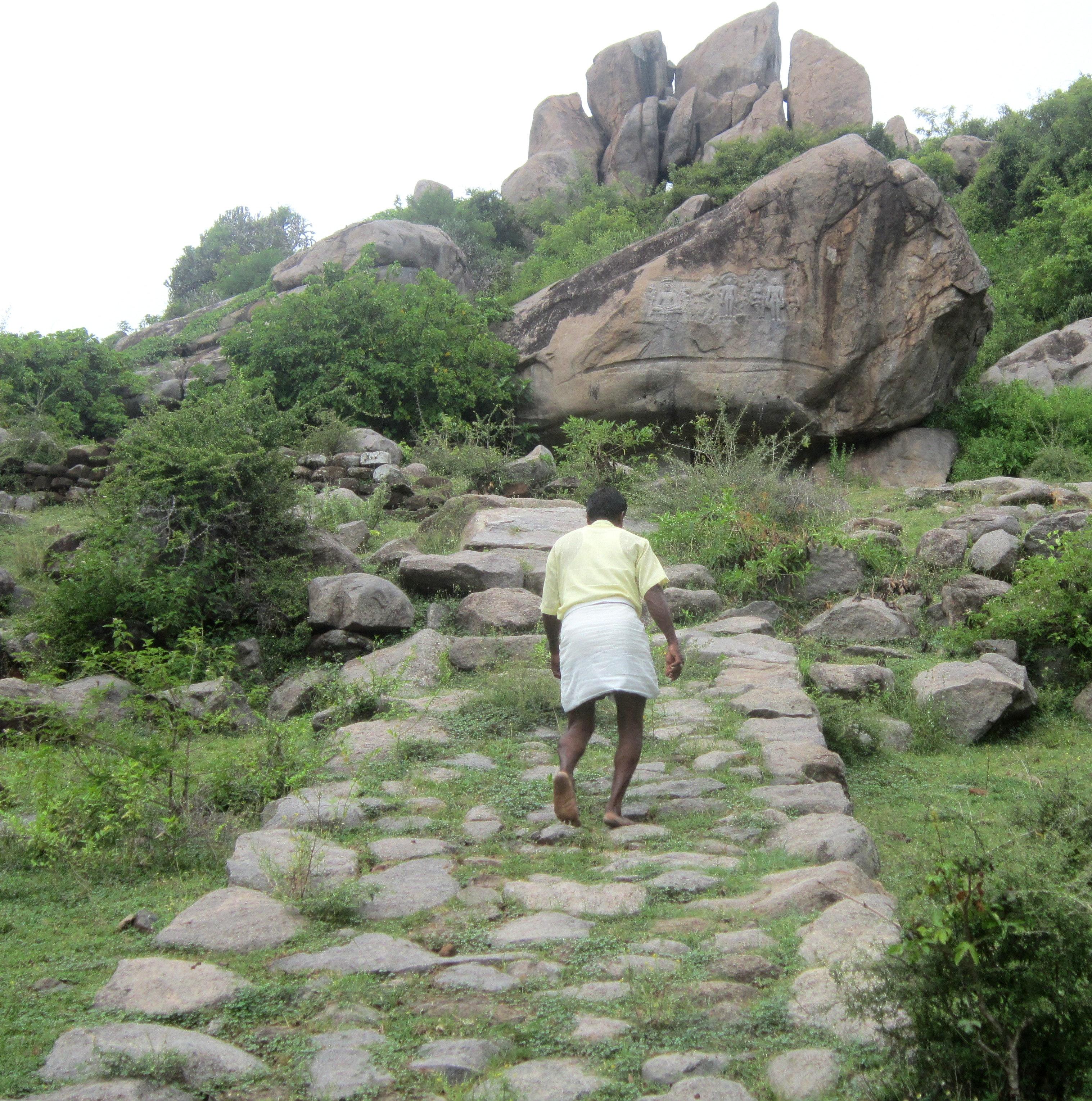 steps